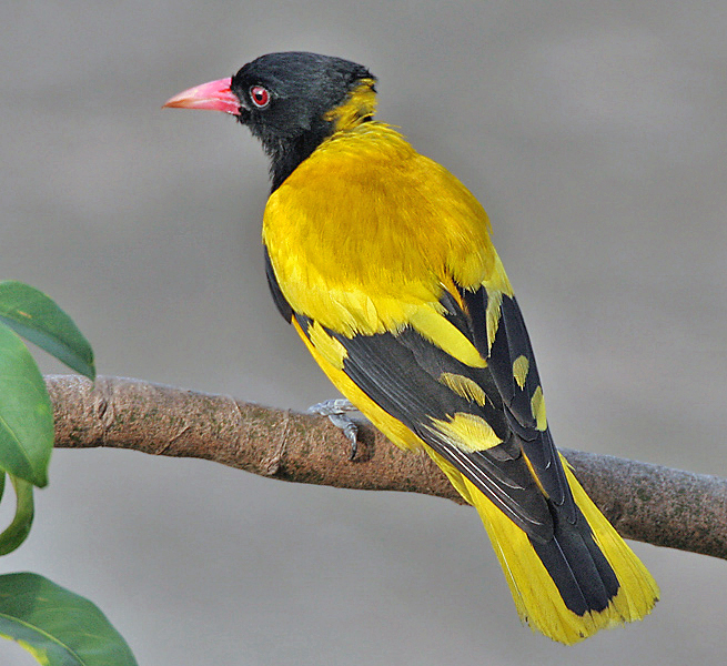 Black-hooded Oriole (Oriolus xanthornus) in Kolkata, West Bengal, India.